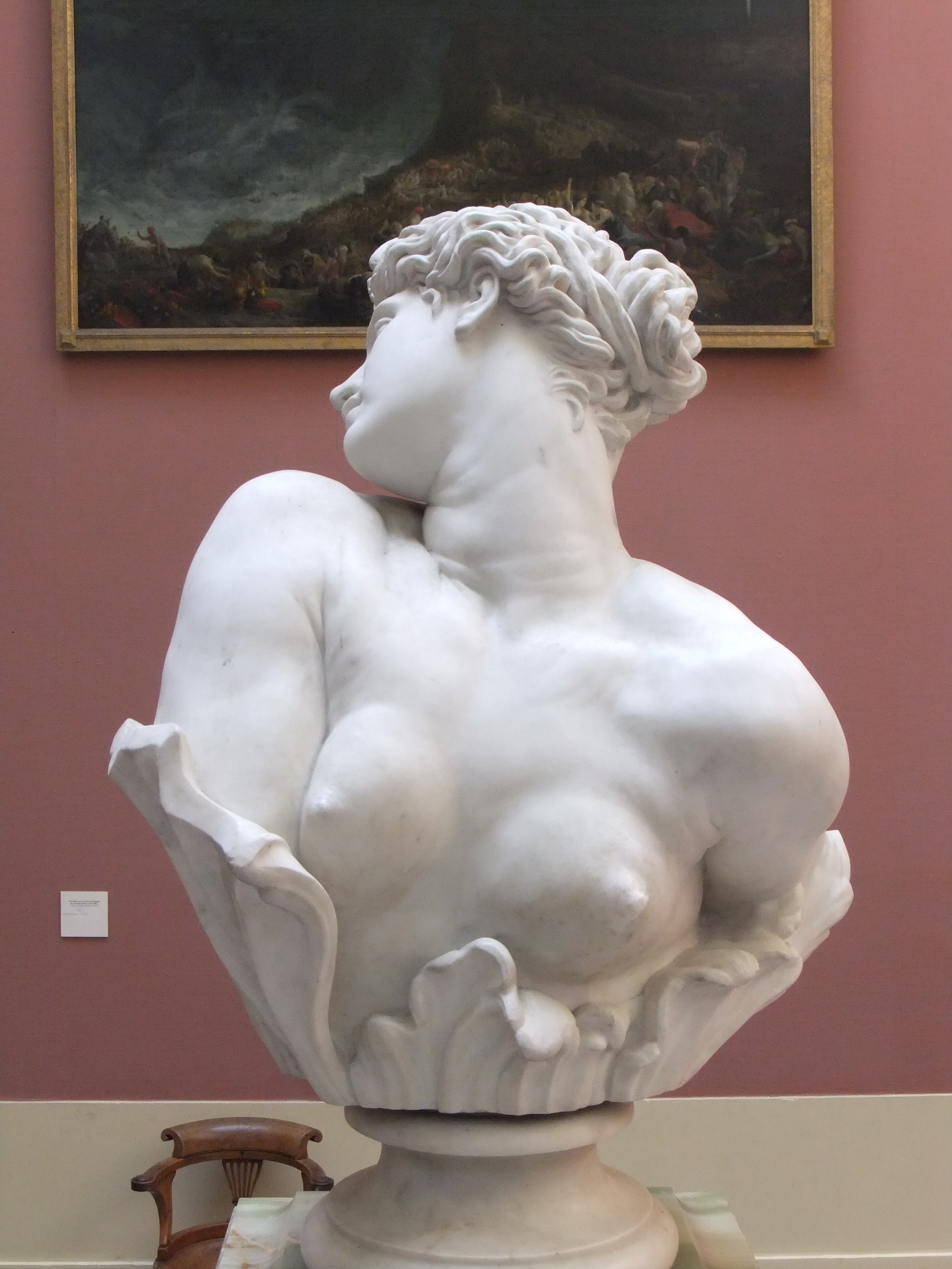 Clytie by George Frederick Watts (c. 1867-68), Harris Museum, Preston.